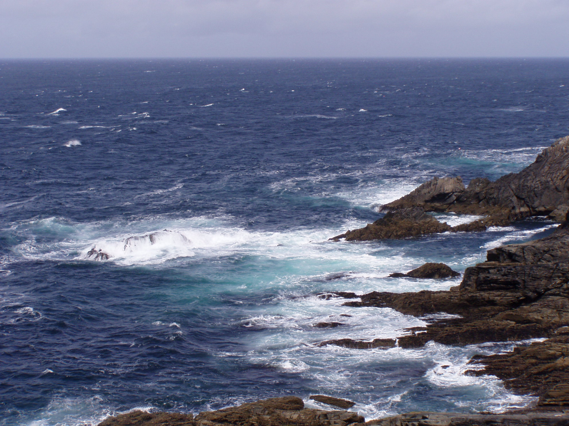 Picture of cliffs in Malin Head area, the most northerly headland of the mainland of Ireland